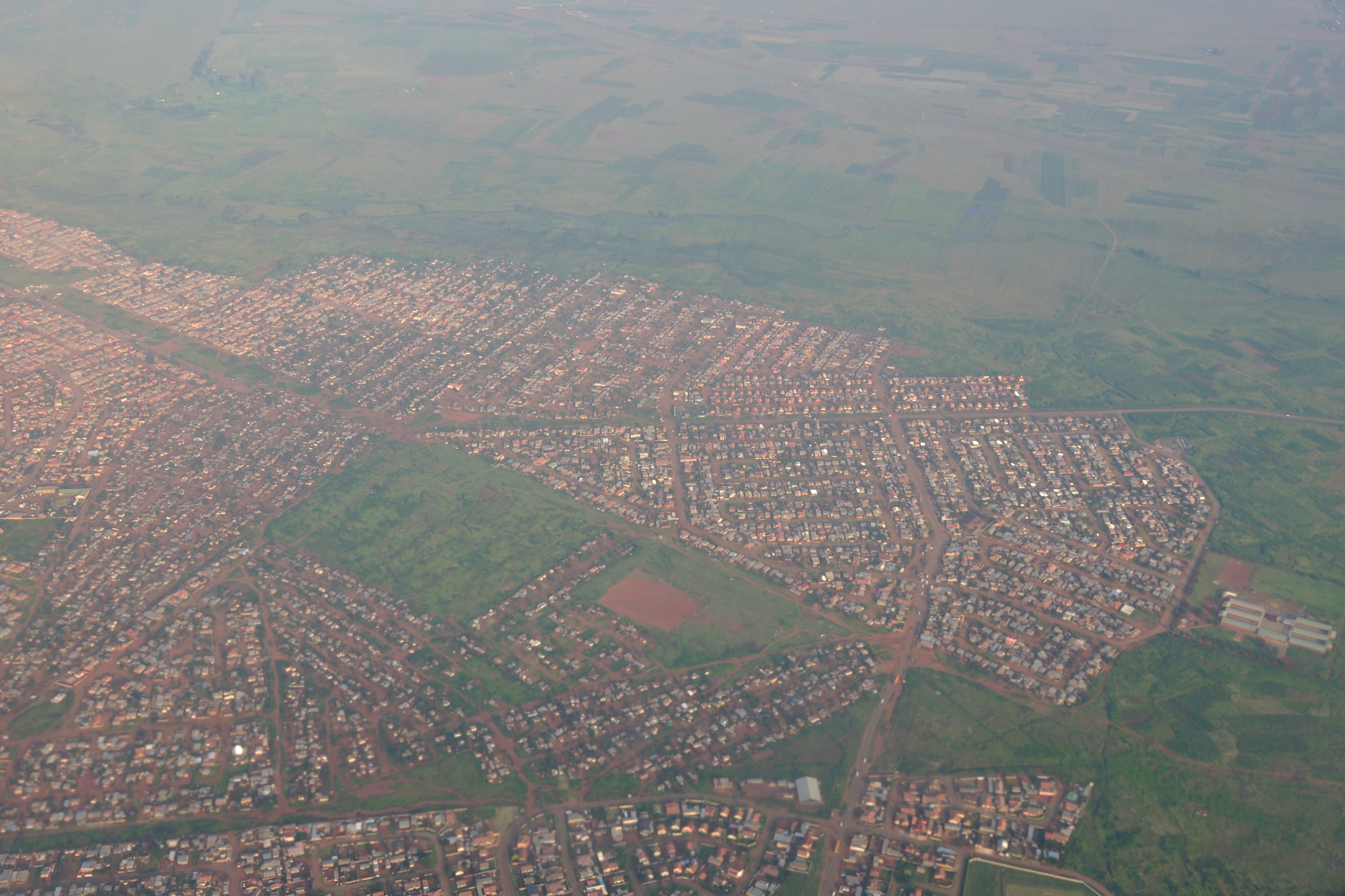 South Africa, imperssions of a flight from Durban to Johannesburg (for exact location see geodata)